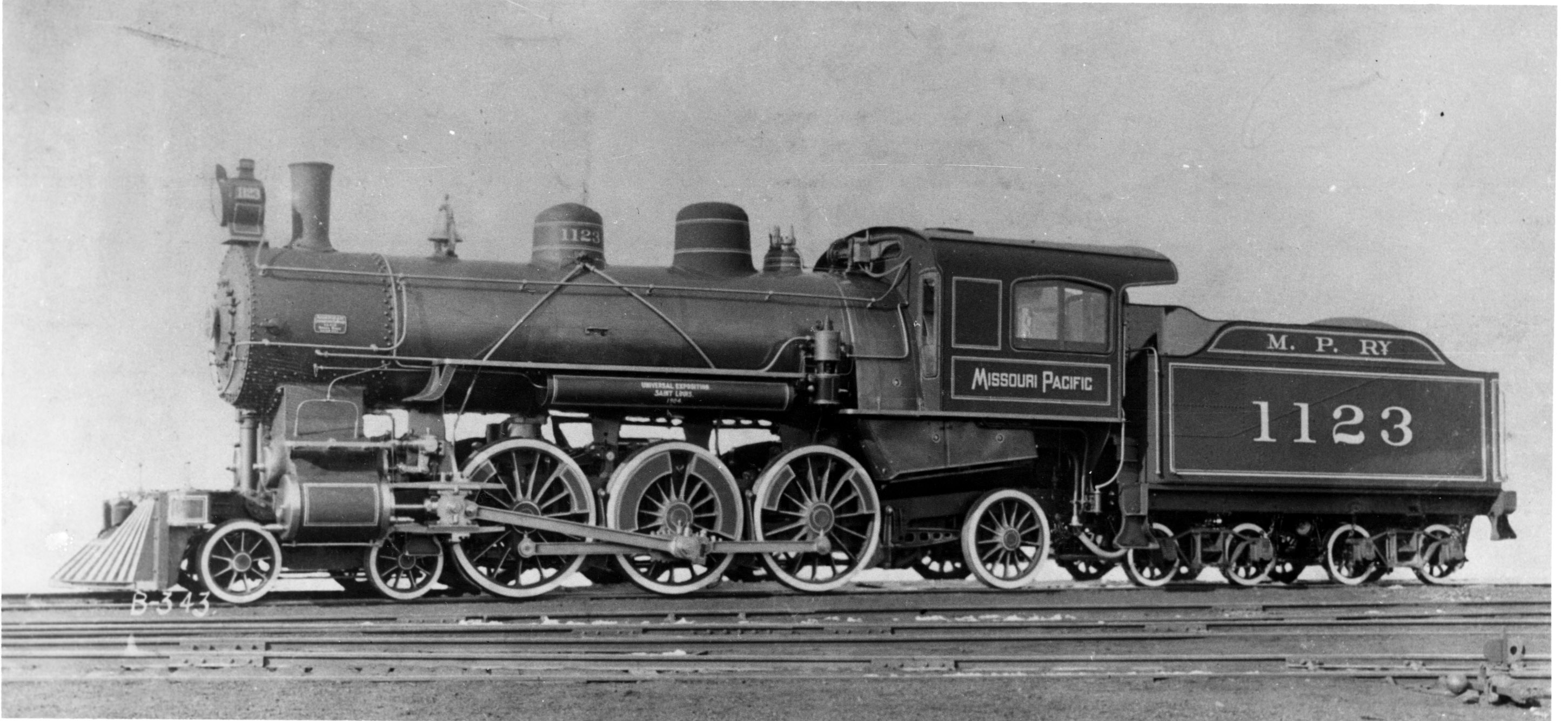 Collection Name: Historic Blue Book Collection Photographer/Studio: Unknown Description: Side view of Missouri Pacific locomotive. Coverage: United States - Missouri Date: not dated Rights: Copyright is in the public domain. Credit: Courtesy of Missouri State Archives Image Number: RG005_77_27_0708 Institution: Missouri State Archives